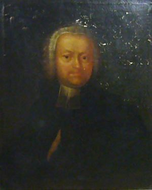 Who knows this professor from Tübingen? The painter was Joseph Franz Malcote (1710-1791). First clues are shown on: Tübinger Professorengallerie